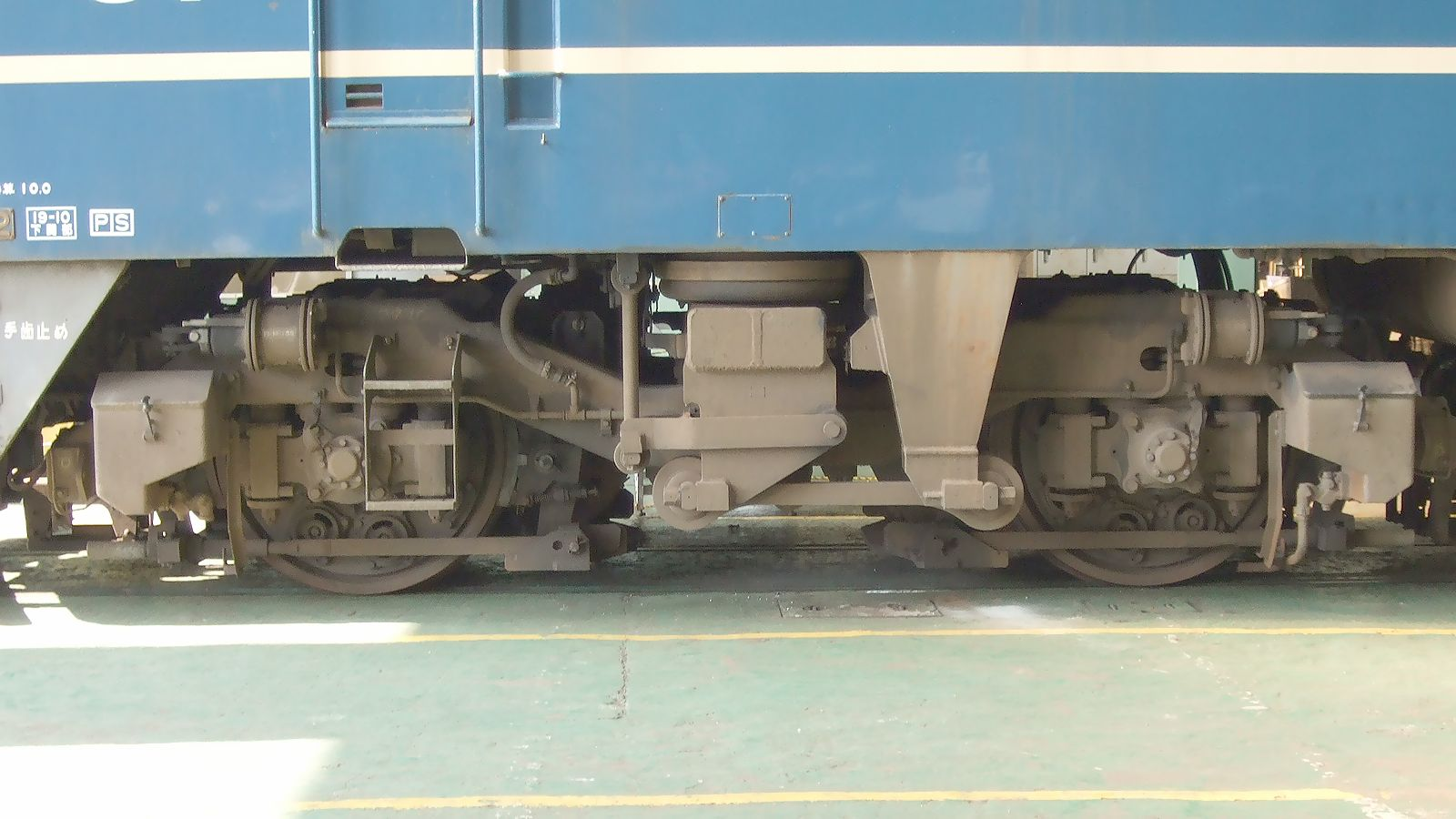 Japanese National Railways truck typeDT133. The both ends truck of Class EF66. Location:at Shimonoseki Railway Yard, Shimonoseki, Yamaguchi, Japan